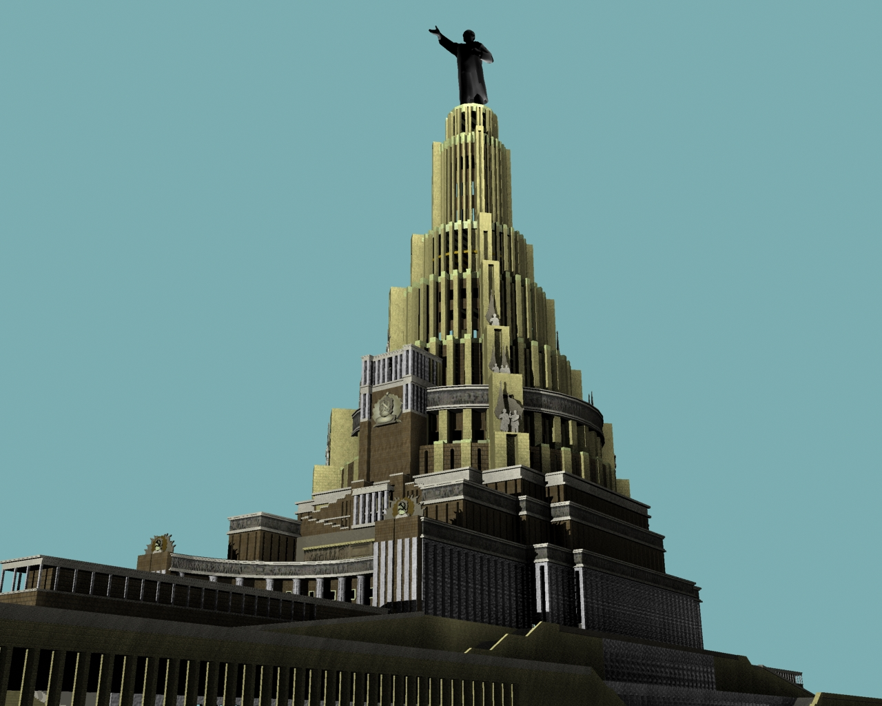 Palace Of Soviets the Soviet Union, (done in 3D Max)